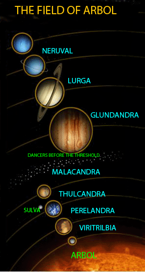 The solar system with names from C. S. Lewis' Space Trilogy. Original source: NASA